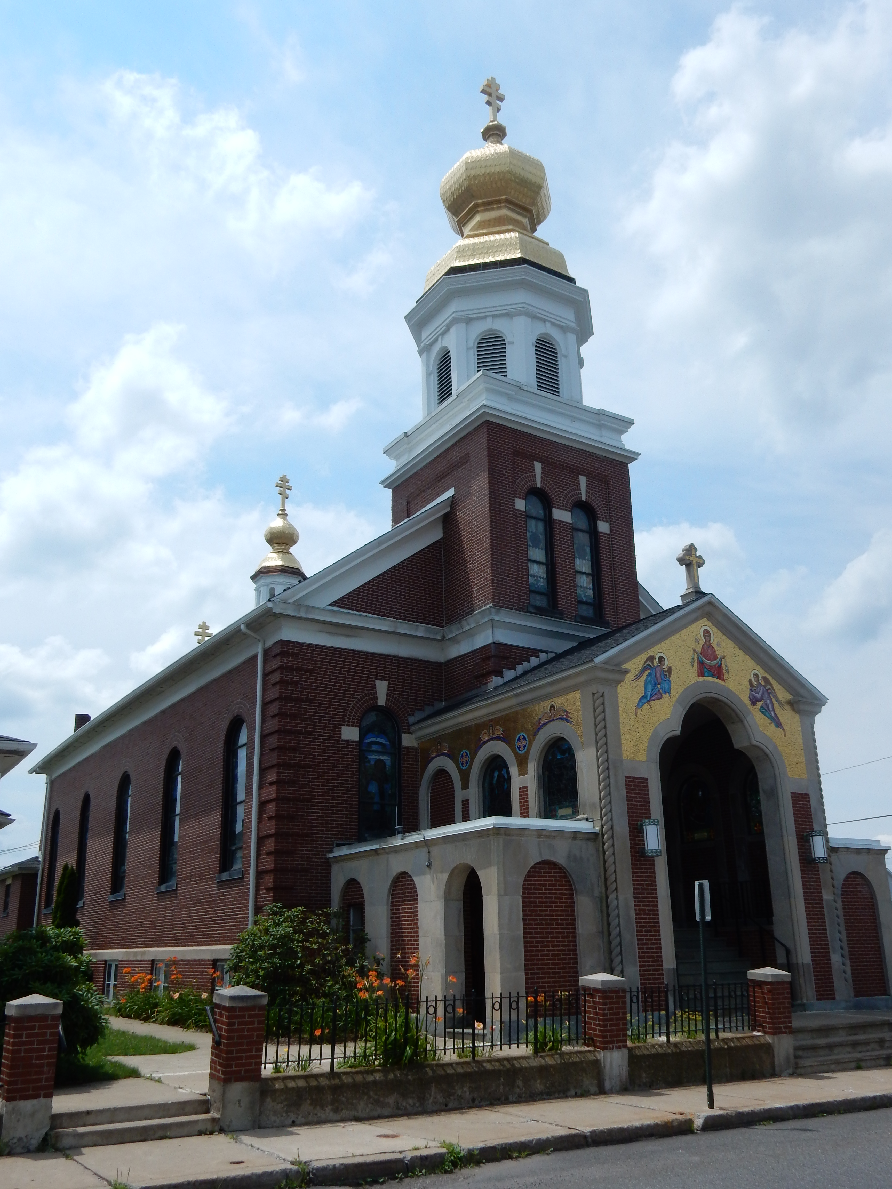 St. Mary's Ukrainian Catholic Church, 210 W. Blaine St., McAdoo, Schuylkill County, Pennsylvania.